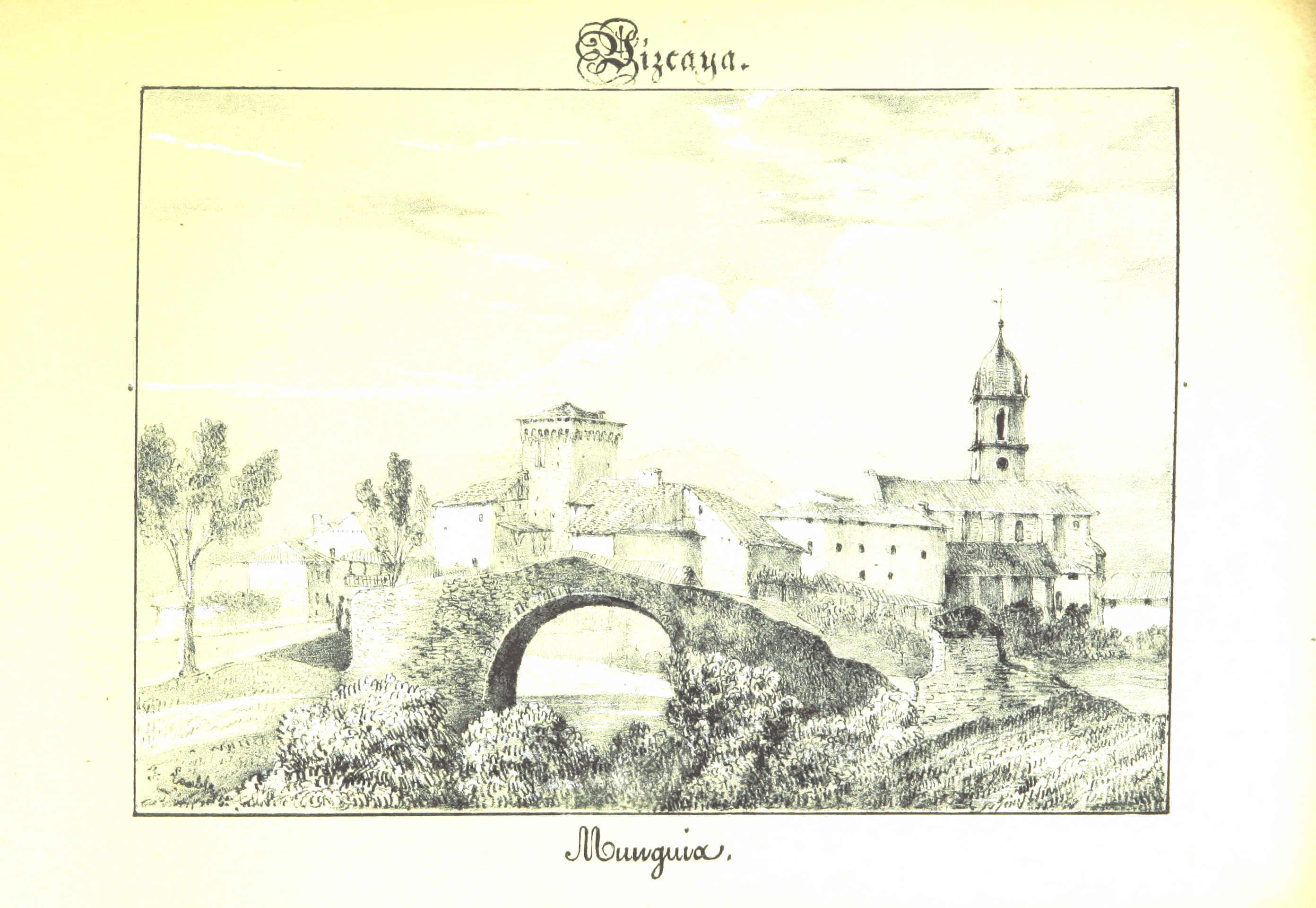 Image taken from: Title: "Revista pintoresca de las provincias Bascongadas. Edicion de lujo. Adornada con vistas ... por S. Lambla. Escrita por L. M. de E. y A. A. y H. Entrega 1-45" Author: E., L. M. de - and A. y H. (A.) Contributor: A. y H., A. Contributor: LAMBLA, Julio. Shelfmark: "British Library HMNTS 10161.f.16." Page: 407 Place of Publishing: Bilbao Date of Publishing: 1844 Issuance: monographic Identifier: 001024664 Explore: Find this item in the British Library catalogue, 'Explore'. Download the PDF for this book (volume: 0) Image found on book scan 407 (NB not necessarily a page number) Download the OCR-derived text for this volume: (plain text) or (json) Click here to see all the illustrations in this book and click here to browse other illustrations published in books in the same year. Order a higher quality version from here.